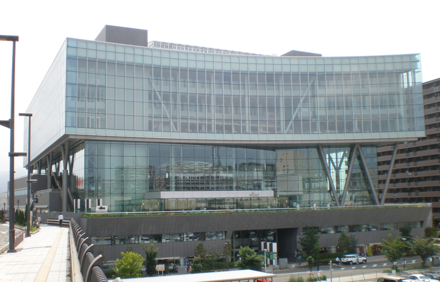 Iwate Prefecture Citizen's Cultural Exchange Center - aiina